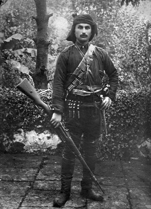 Lieutenant colonel of militia Topal Osman Agha